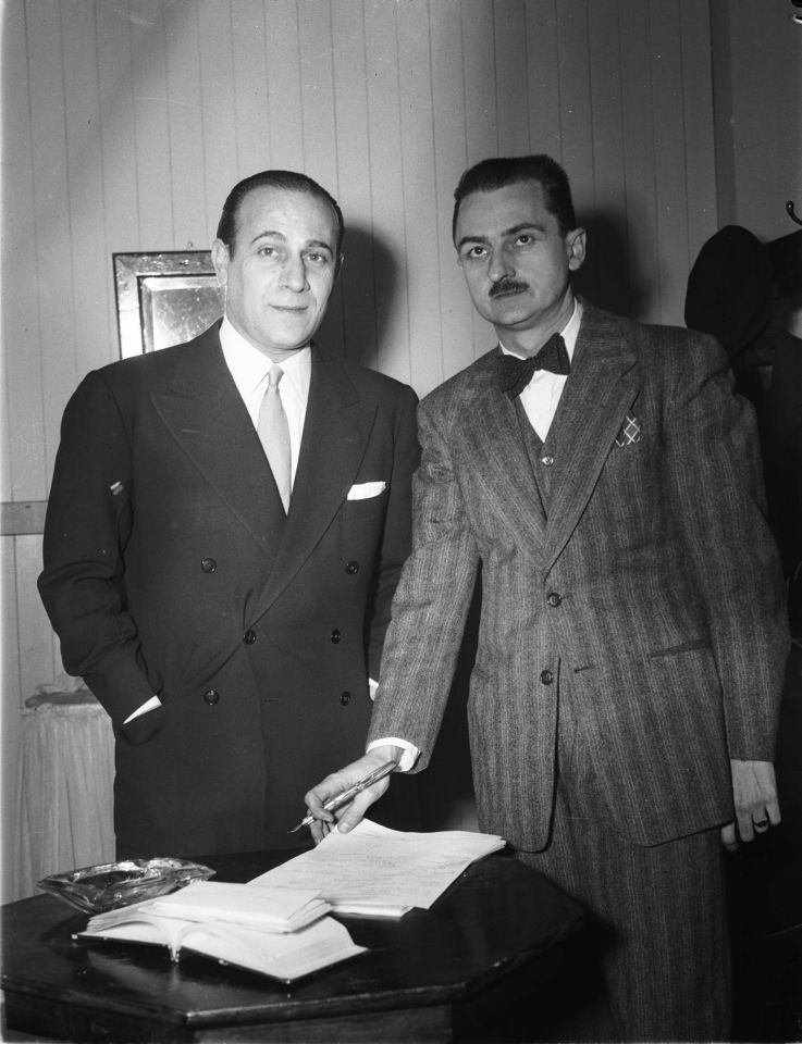 For documentary purposes the original description provided by BAnQ has been retained. Additional descriptive text may be added by Wikimedians with the wiki description = parameter, but please do not modify the other fields.